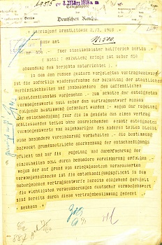 Telegram to the German minister of state Karl Helfferich with the peace conditions for Soviet Russia